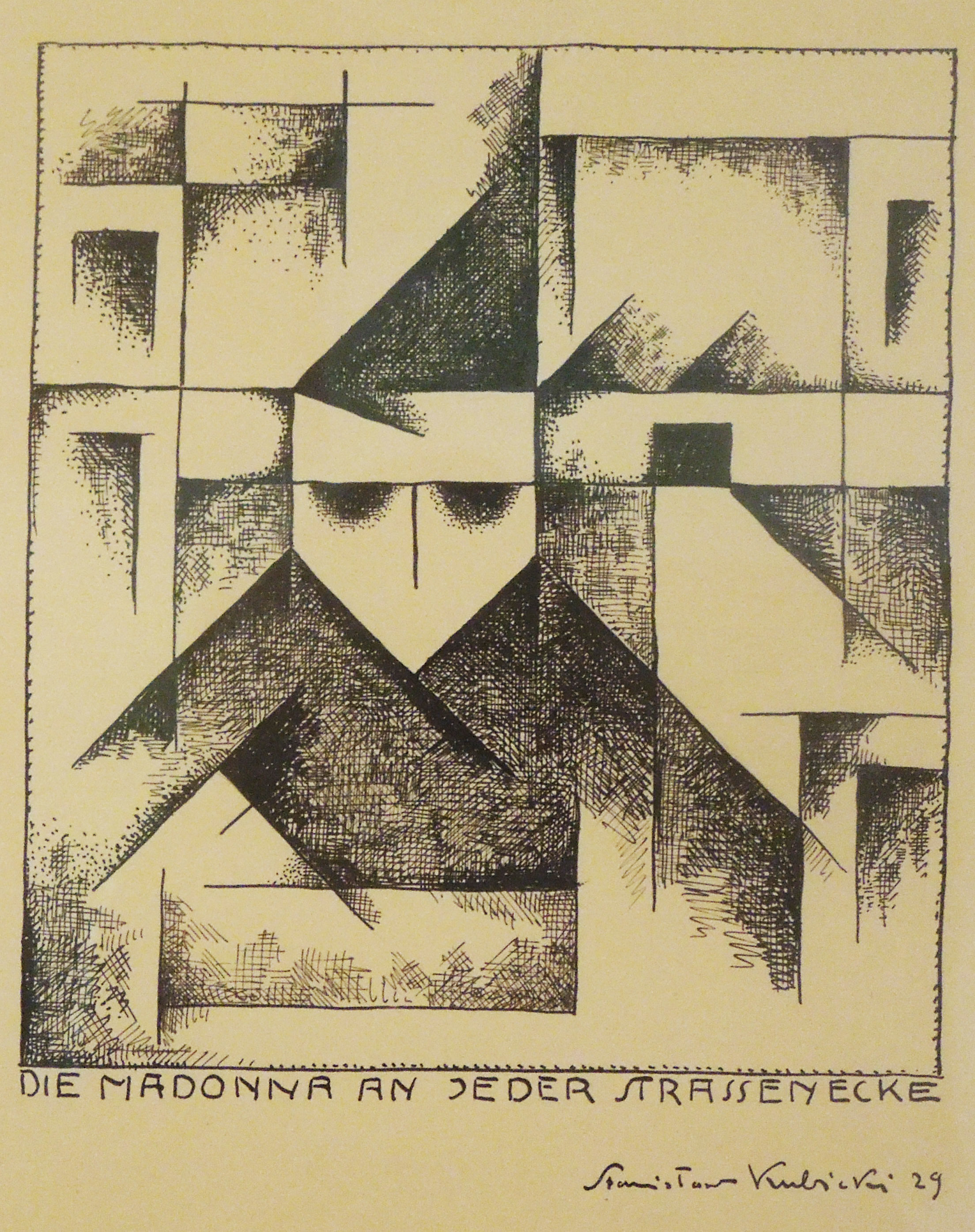 Stanisław Kubicki - Madonna Standing on Every Street Corner; ink, paper; Collection of Prof. Stanisław Karol Kubicki, Berlin